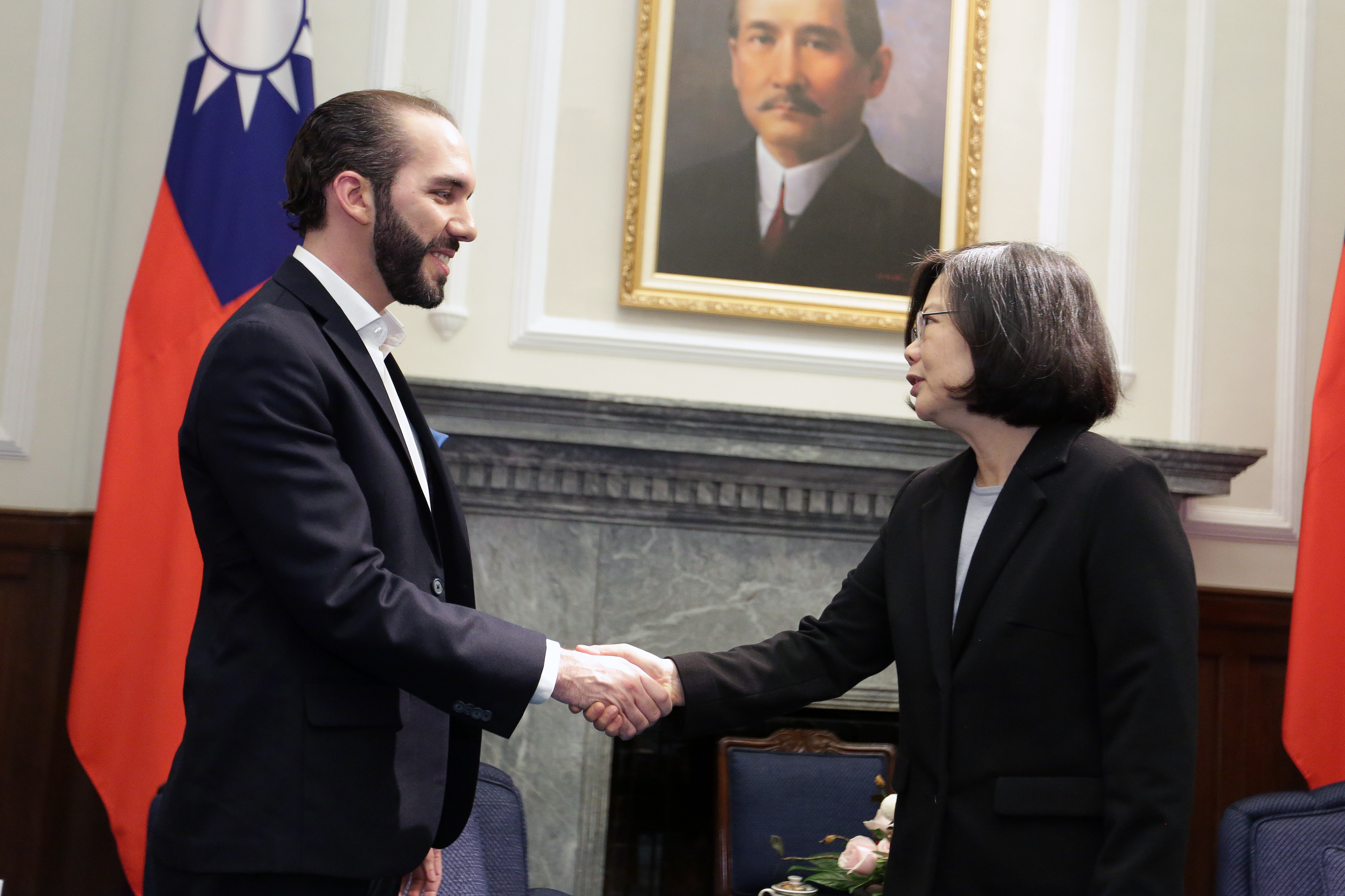 President Tsai meets with Mayor Bukele. (President Tsai meets with Mayor Nayib Bukele of San Salvador, the capital of the Republic of El Salvador, 2017/02/23) 授權方式及範圍：中華民國總統府│政府網站資料開放宣告 Authorization Method & Scope: Office of the President, Republic of China (Taiwan) | Government Website Open Information Announcement